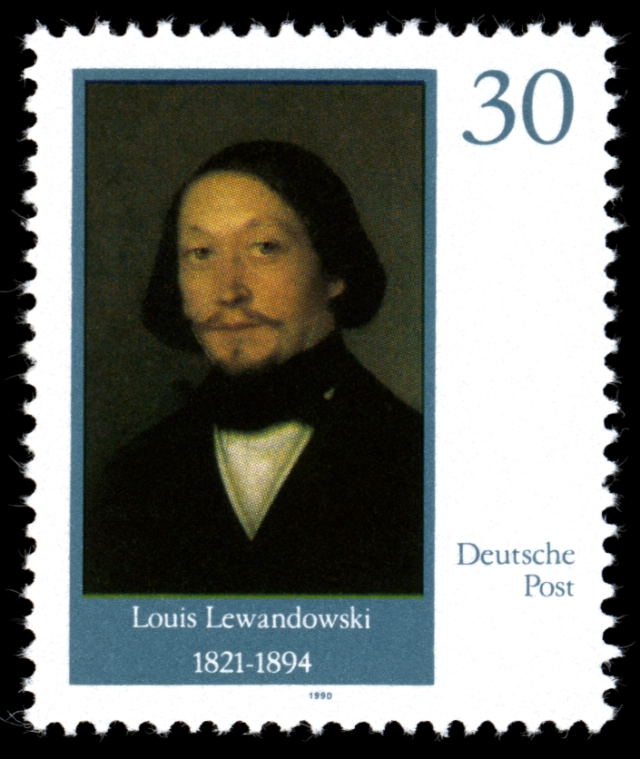 Ausgabepreis: 30 Pfennig First Day of Issue / Erstausgabetag: 18. September 1990 Auflage: 8.000.000 Entwurf: Lenz Druckverfahren: Offsetdruck Michel-Katalog-Nr: Ländercode-MiNr: 3358 Licensing This image is in the public domain because it is a mere mechanical scan or photocopy of a public domain original, or – from the available evidence – is so similar to such a scan or photocopy that no copyright protection can be expected to arise. The original itself is in the public domain for the following reason: This work was published before January 1, 1894 and it is anonymous or pseudonymous due to unknown authorship. It is in the public domain in the United States as well as countries and areas where the copyright terms of anonymous or pseudonymous works are 125 years or fewer since publication. This tag is designed for use where there may be a need to assert that any enhancements (eg brightness, contrast, colour-matching, sharpening) are in themselves insufficiently creative to generate a new copyright. It can be used where it is unknown whether any enhancements have been made, as well as when the enhancements are clear but insufficient. For known raw unenhanced scans you can use an appropriate PD-old tag instead. For usage, see Commons:When to use the PD-scan tag. Note: This tag applies to scans and photocopies only. For photographs of public domain originals taken from afar, PD-Art may be applicable. See Commons:When to use the PD-Art tag.